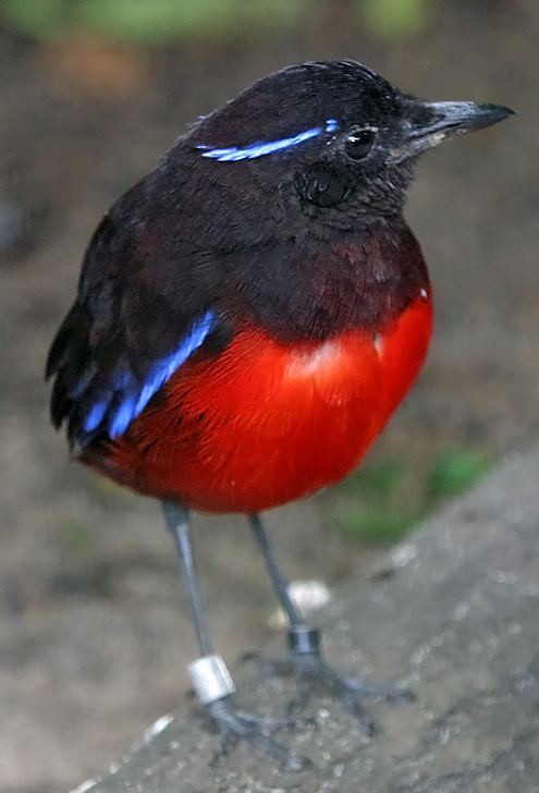 Pitta venusta